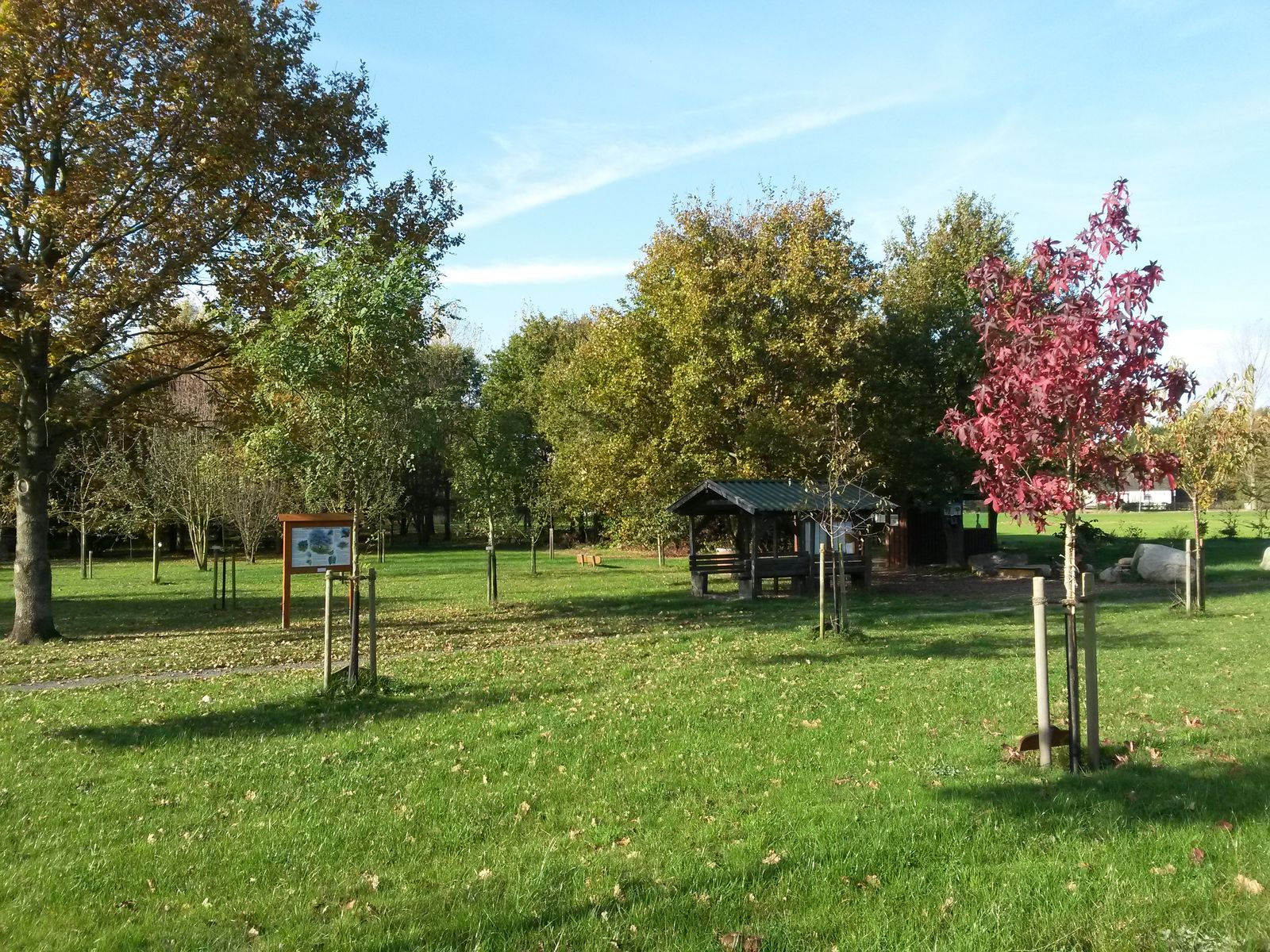 Weddingforest Heidenau